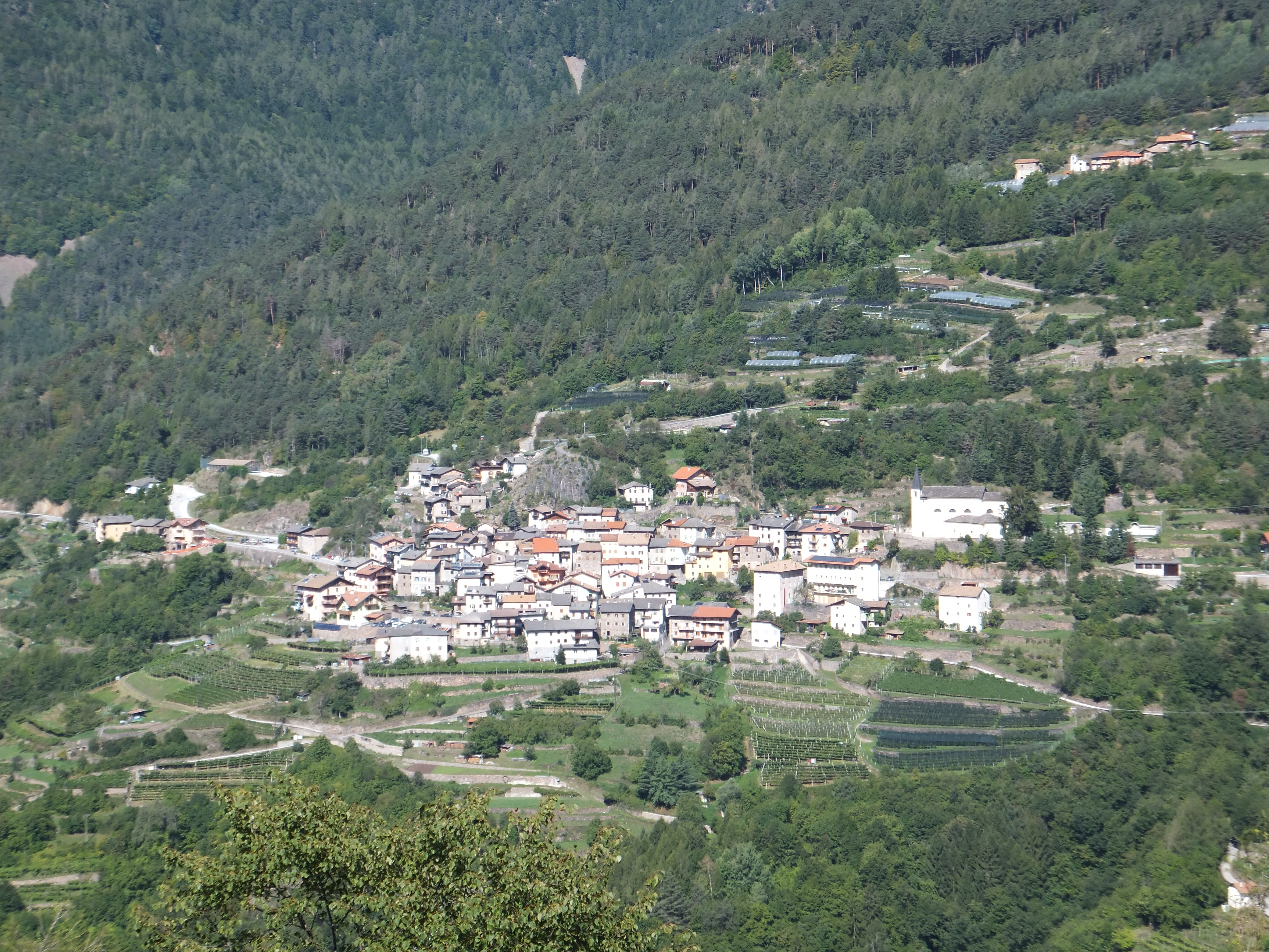 The town of Valda seen from the Sanctuary of the Madonna of Aid (Segonzano)